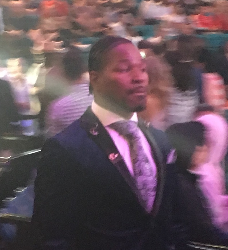 Boxer Shawn Porter walking through MGM Grand Garden Arena to watch the Manny Pacquiao vs. Keith Thurman boxing match on July 20, 2019.